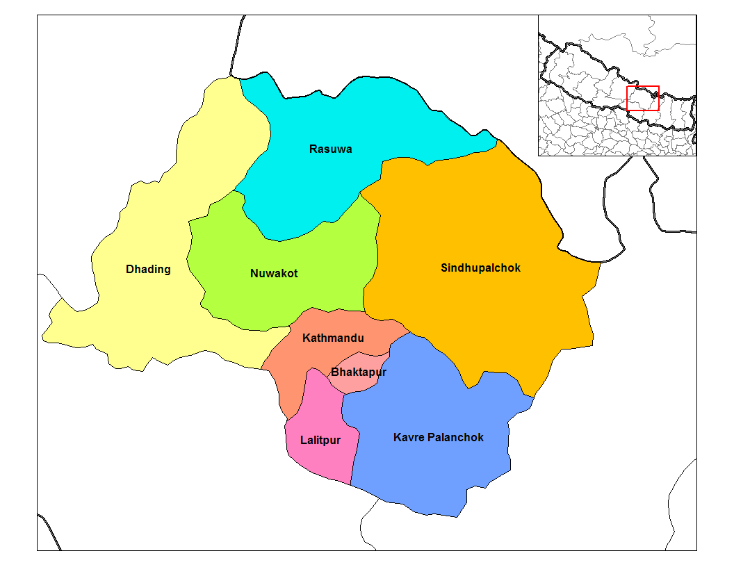 Map of the districts of Bagmati Zone (wp-EN) in Nepal. Created by Rarelibra 18:07, 18 September 2006 (UTC) for public domain use, using MapInfo Professional v8.5 and various mapping resources.